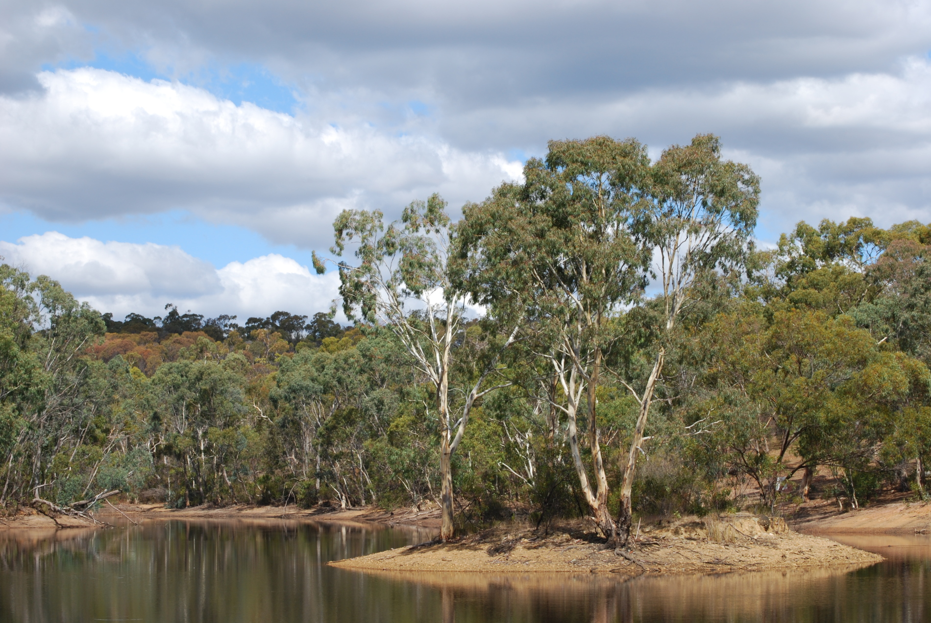 Lake with Island at Para Wirra Recreation Park, South Australia